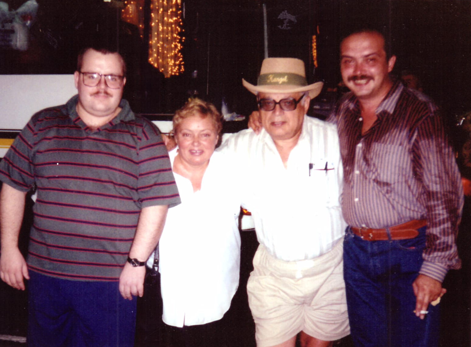 Vladimir Voroshilov, Nataliya Stetsenko and Andrey Kozlov finished their part of the cruise provided by a sponsor as a gift for winning the game on December 25th 1993 and "passed the torch" to Alexey Blinov and his team.